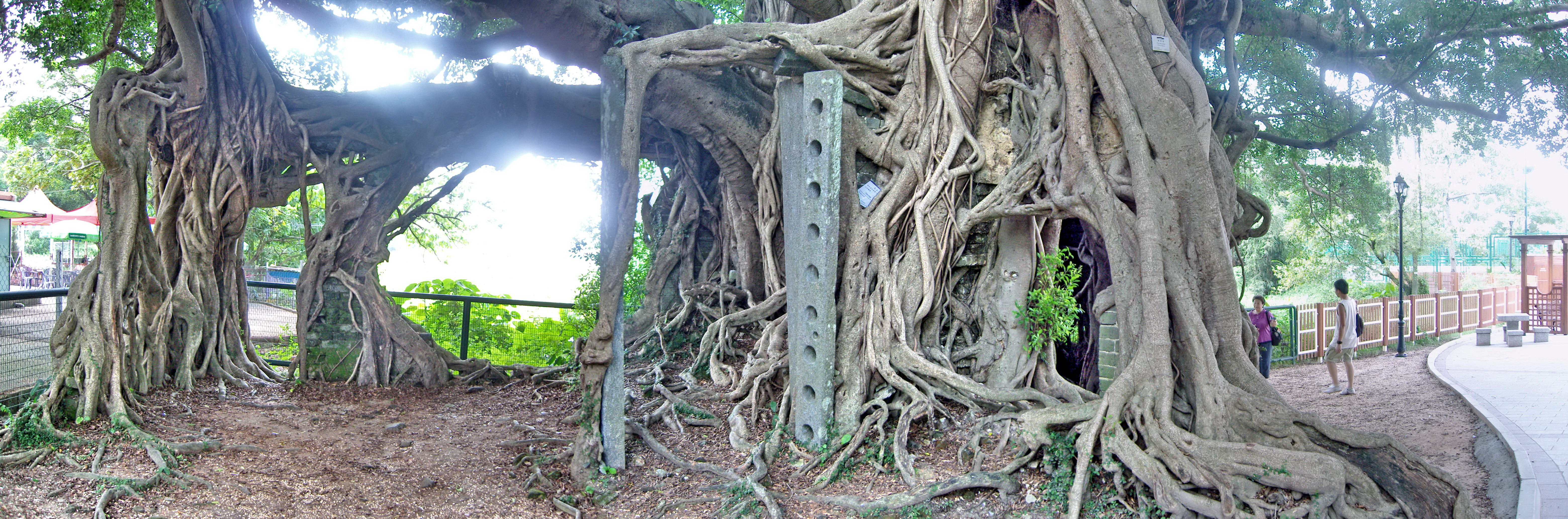 Kam Tin Tree House (An old banyan tree grew bigger and bigger besides the stone house, and after centuries, there're only part of brick walls and a granite doorframe left under the huge tree.) in Shui Mei Village, Kam Tin, Hong Kong.